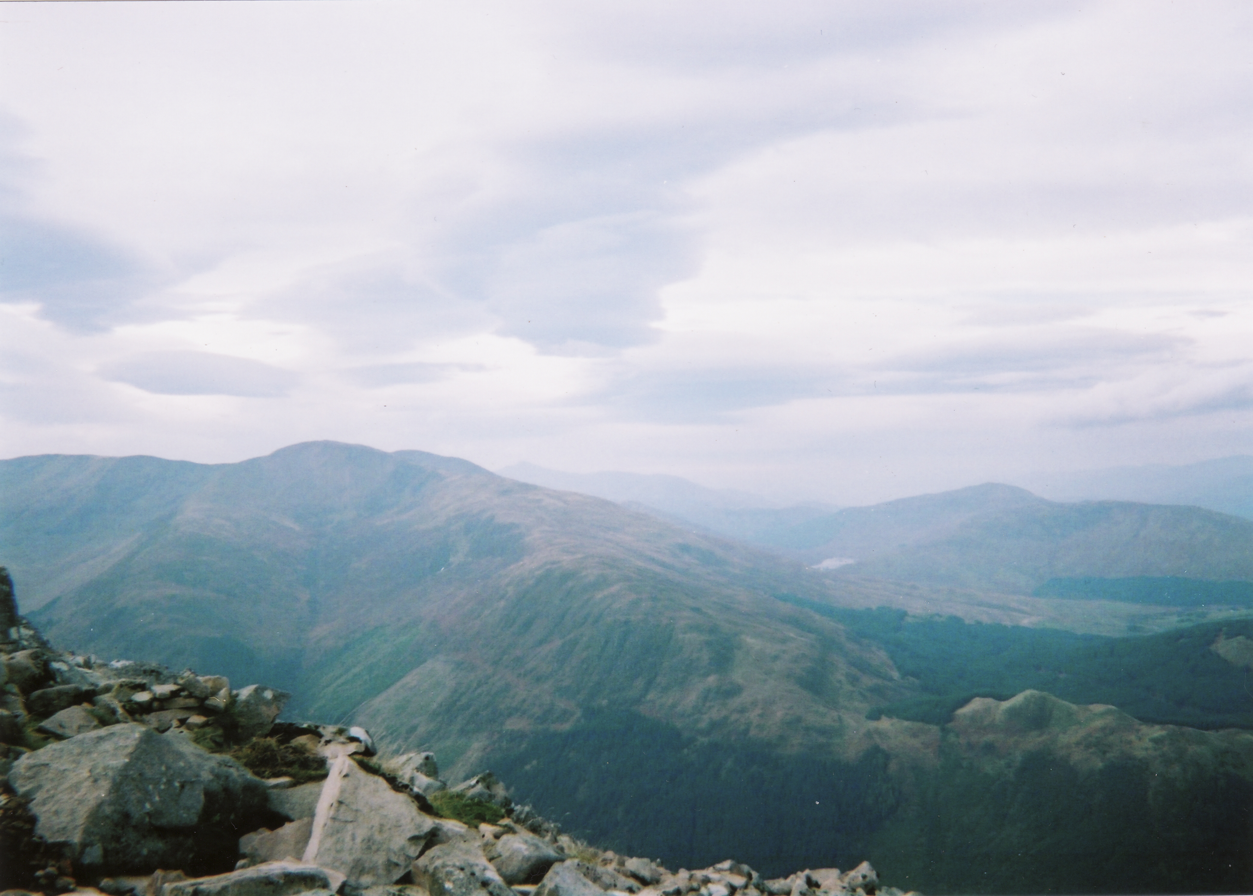 View of Glen Nevis from Scotlands highest mountain, Ben Nevis